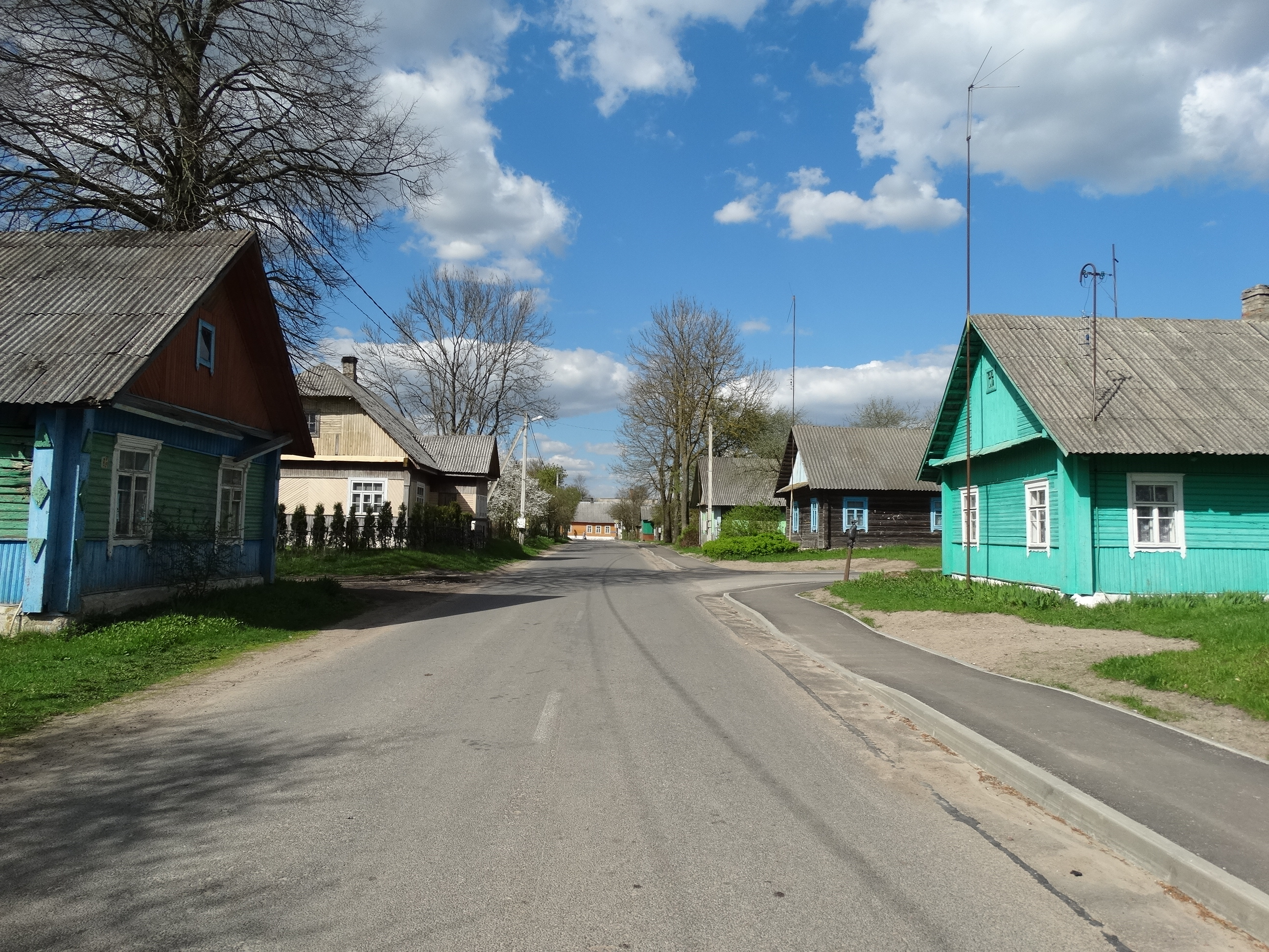 Dieveniškės, Šalčininkai District, Lithuania